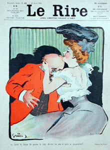 Embrace